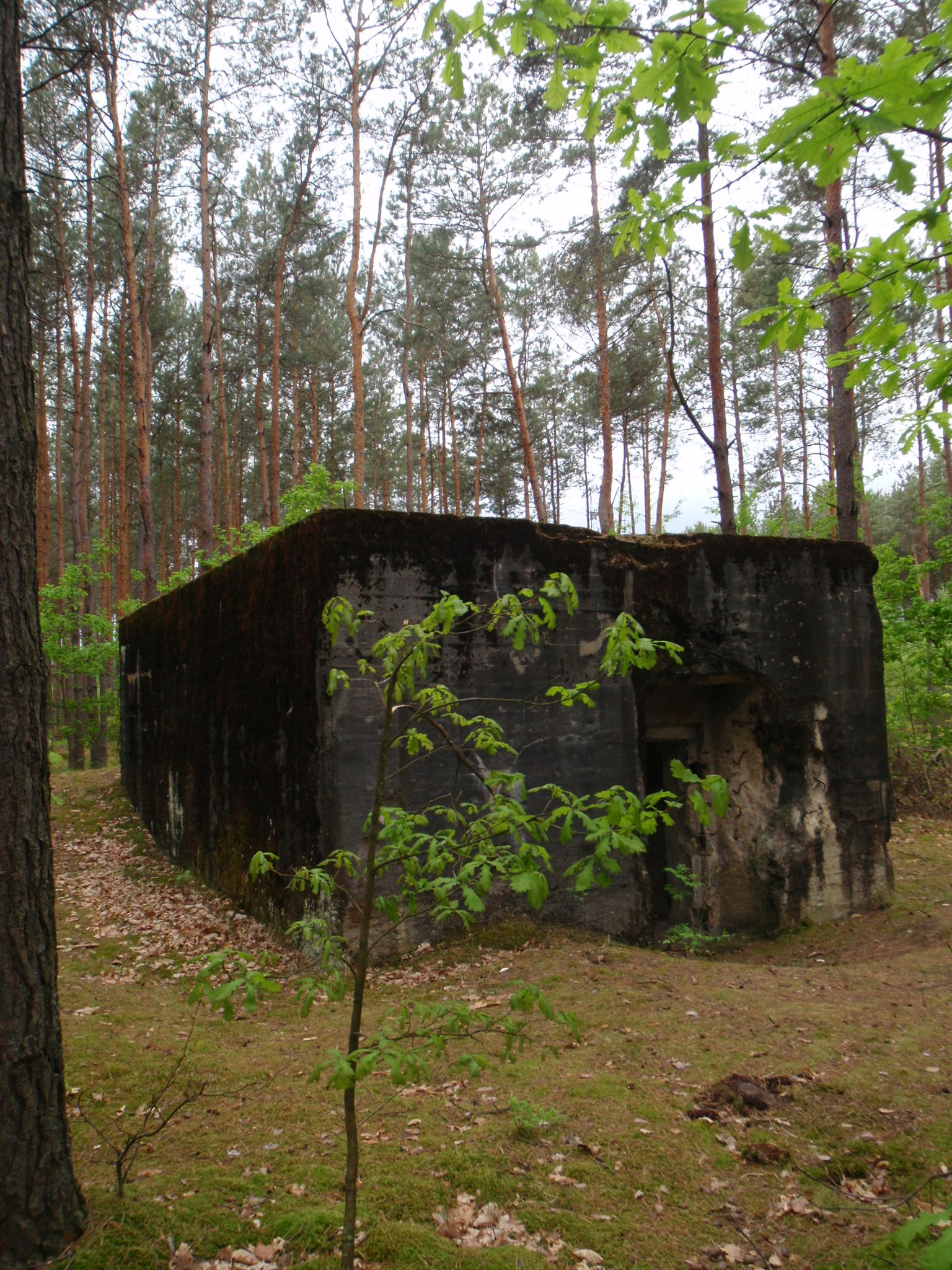 German firing ground from II World War in Lasy Bierwieckie (Bierwieckie forests)